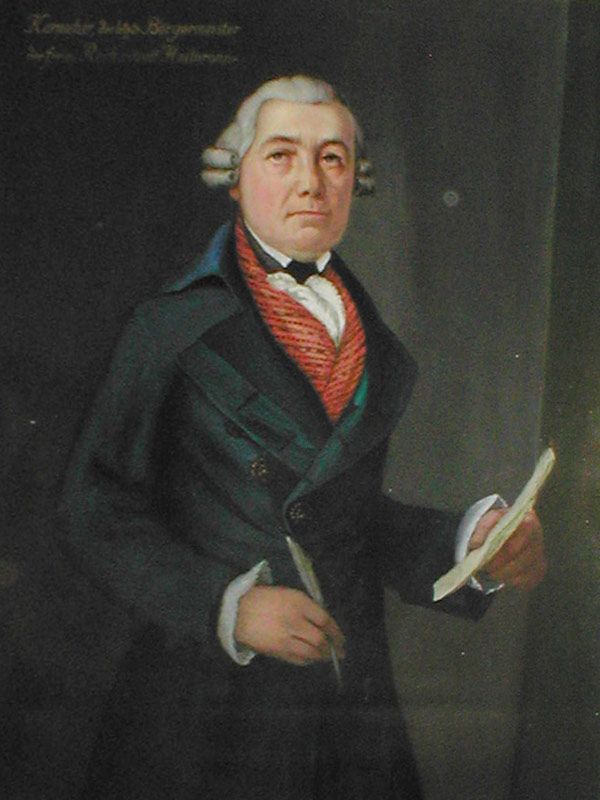 Georg Christoph Kornacher (1725-1803), Bürgermeister von Heilbronn // city mayor of Heilbronn, germany. Contemporary painting